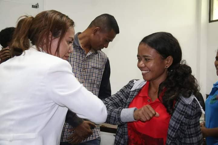 East Timor's Vice Minister of Health Élia António de Araújo dos Reis Amaral (left) is showing how to greet in times of Corona Virus